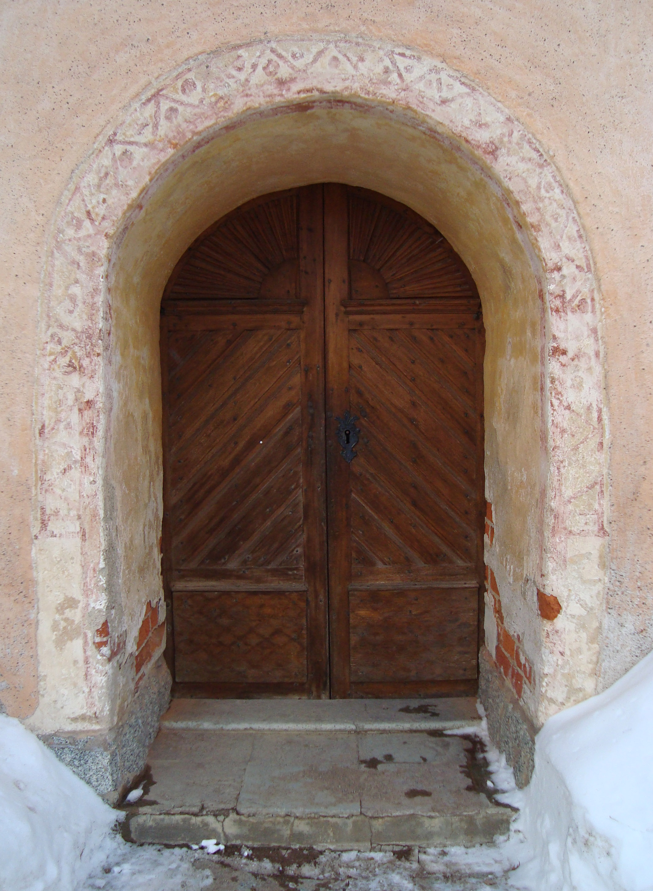 Kumla church, Sala Municipality, Diocese of Västerås, Sweden